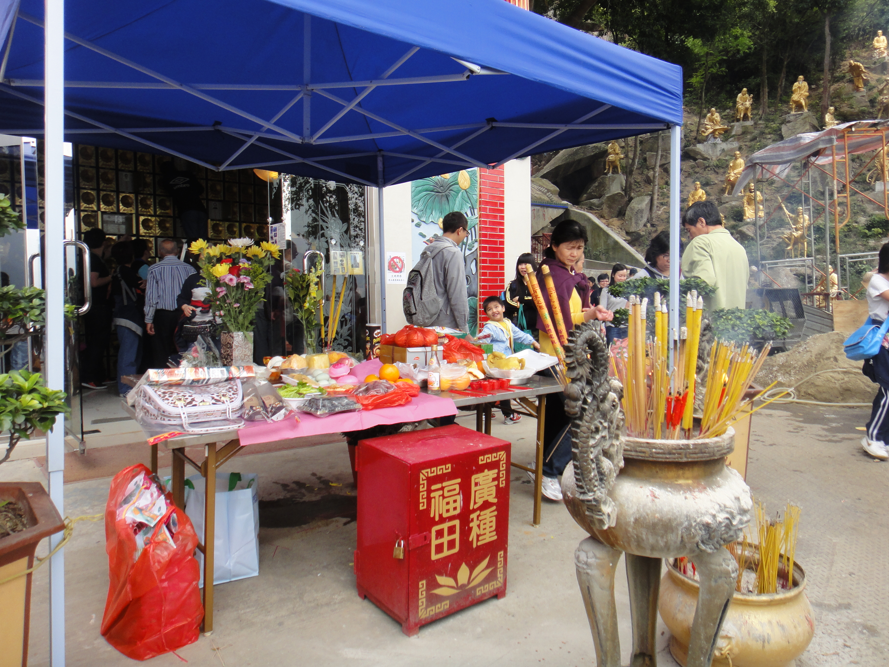 in Buddha Temple